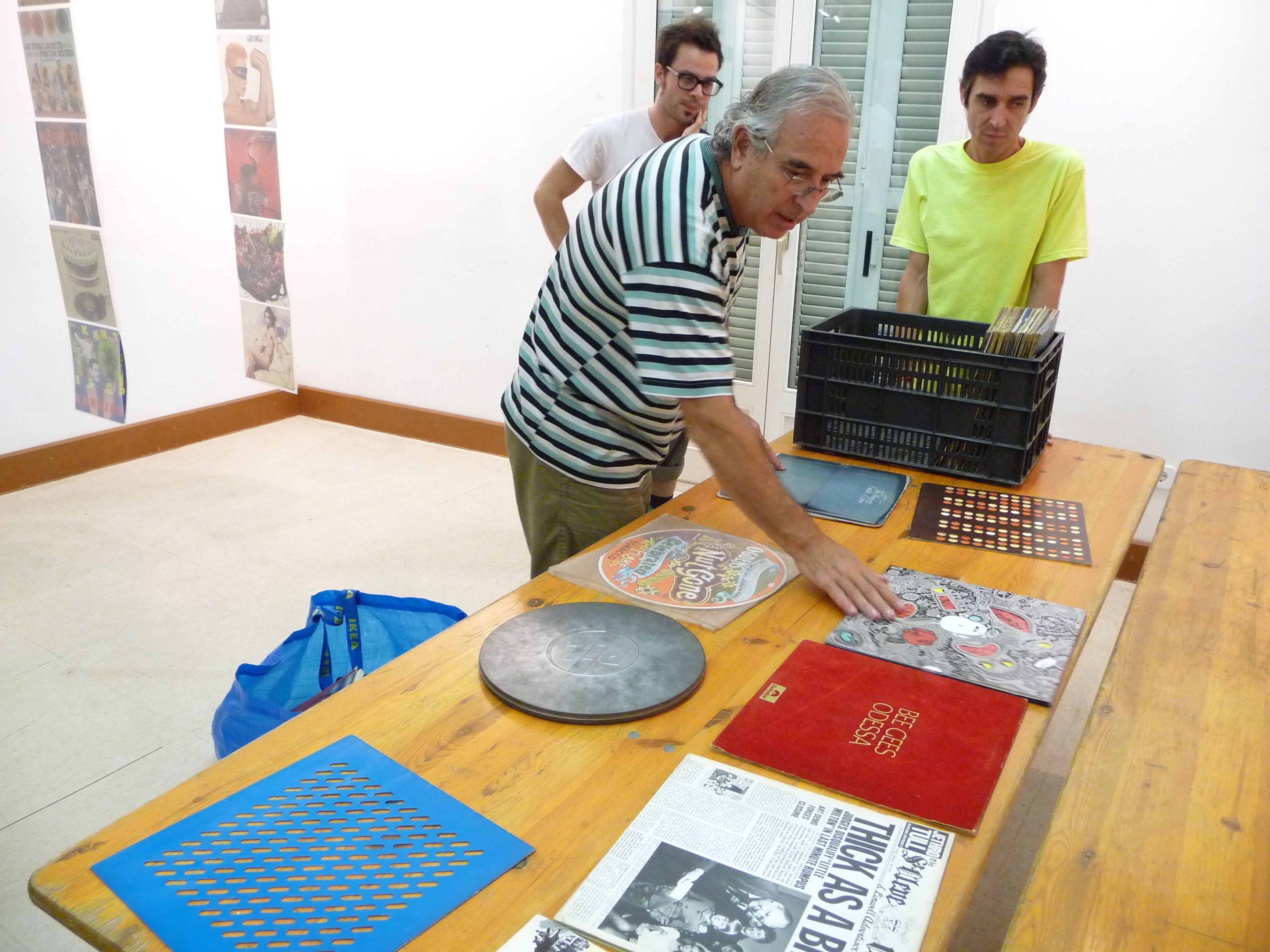 Jaume Pujagut setting the exhibition of his own vinyl records sleeve collection in the Festa del Grafisme 2011, at Portbou (Girona).